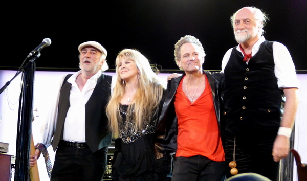 FLEETWOOD MAC on March 3, 2009 in St. Paul, MN at the Xcel Energy Center. Left to right: John McVie, Lindsey Buckingham, Steve Nicks, Mick Fleetwood Photo by Matt Becker, Use without citation is a violation of law.